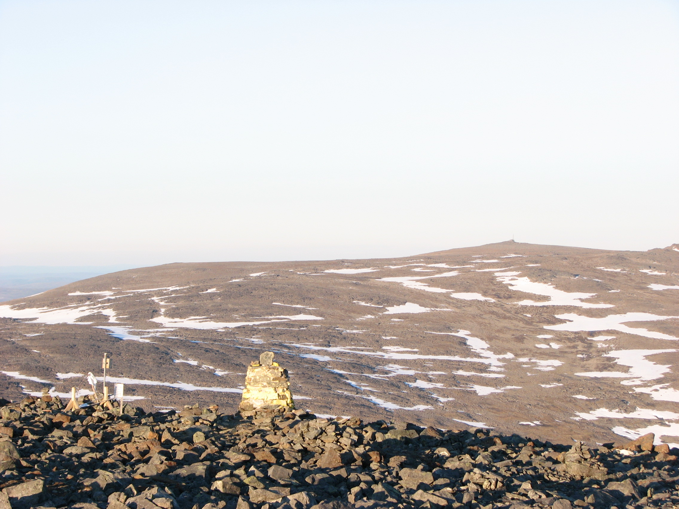 Ridnitšohkka fell in background and boundary mark 303B on foreground. 303B is the highest point in Finland and is located on Halti fell. On the other hand, Ridnitšohkka is the highest fell in Finland with its peak entirely in the Finnish side of the border. The photo is taken in the evening the 8th of July, 2008 from Norwegian side of Halti. The "mailbox" on left contains the visitors' book of Halti.